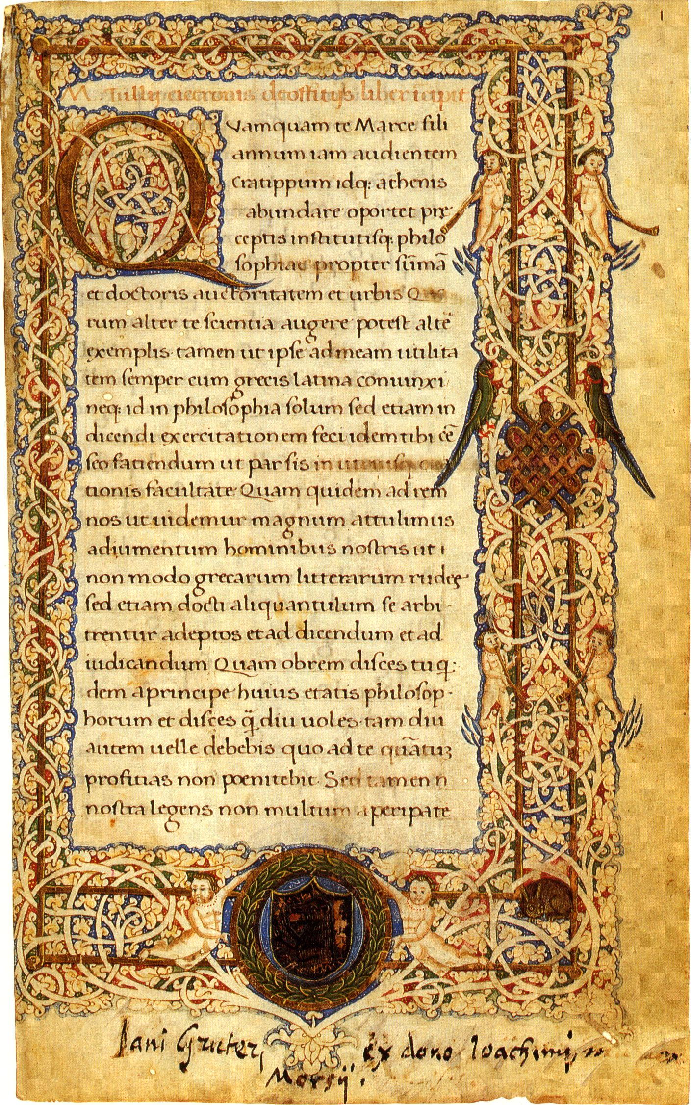 Cicero, De officiis, in ms. Biblioteca Apostolica Vaticana, Vaticanus Palatinus lat. 1534, fol. 1r.